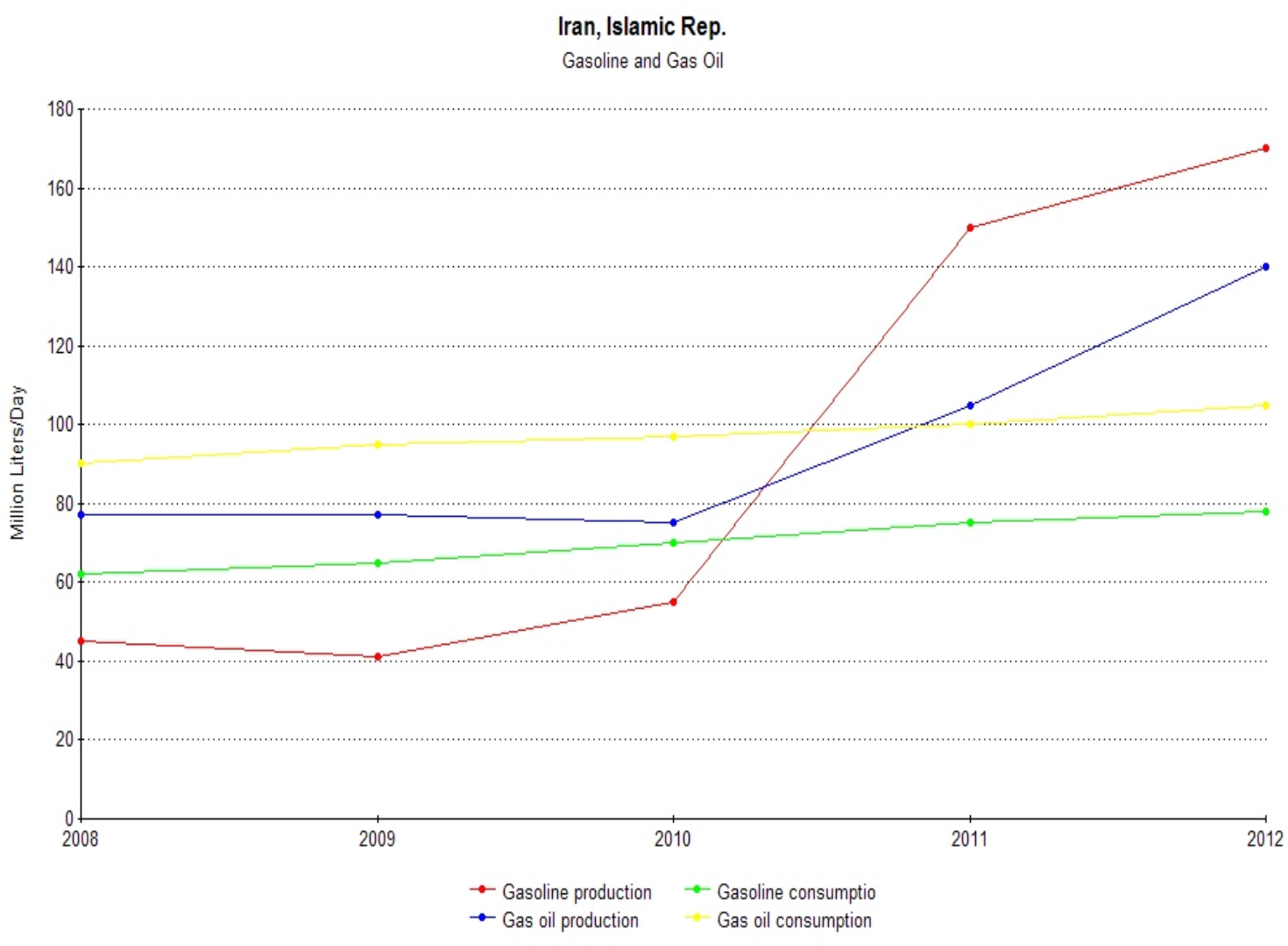 Iran's Gasoline and Gas-Oil Production/Consumption (2008-2012). Data source: National Iranian Oil Refining & Distribution Company.